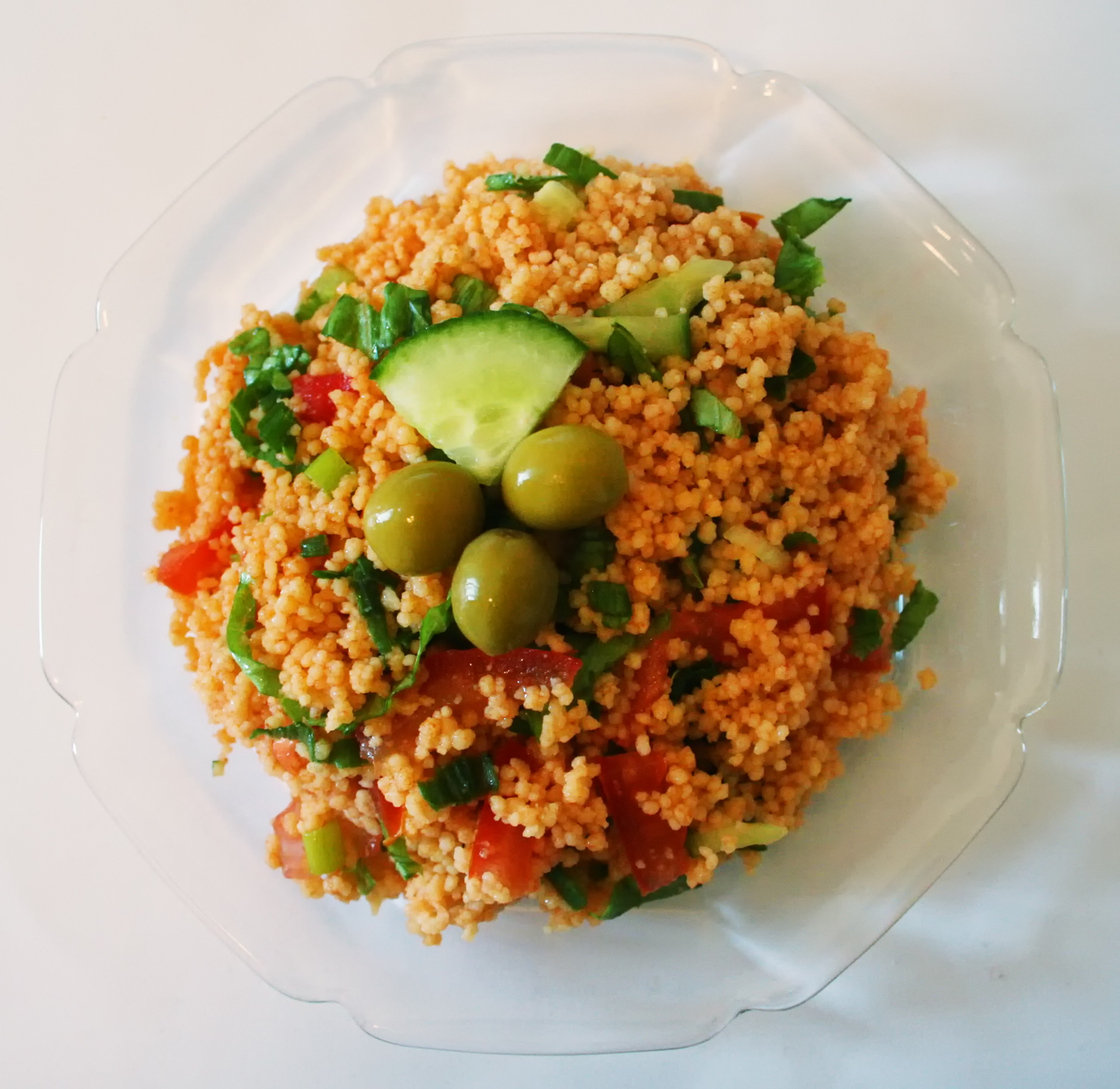 "Kısır" is a couscous salad from Turkish Cuisine. It is very similar to several other Mediterranean style couscous salads.